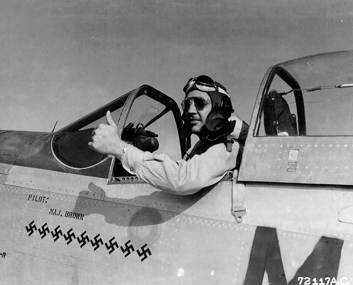 Major Samuel Jesse Brown of the 309th Fighter Squadron 31st Fighter Group in P-51D Mustang (44-13464) Coded MX A